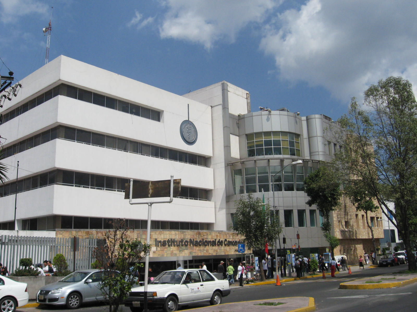 Instituto Nacional de Cancerologìa (National Institute of Oncology) located on San Fernando Avenue Delegacion Tlalpan in Mexico City